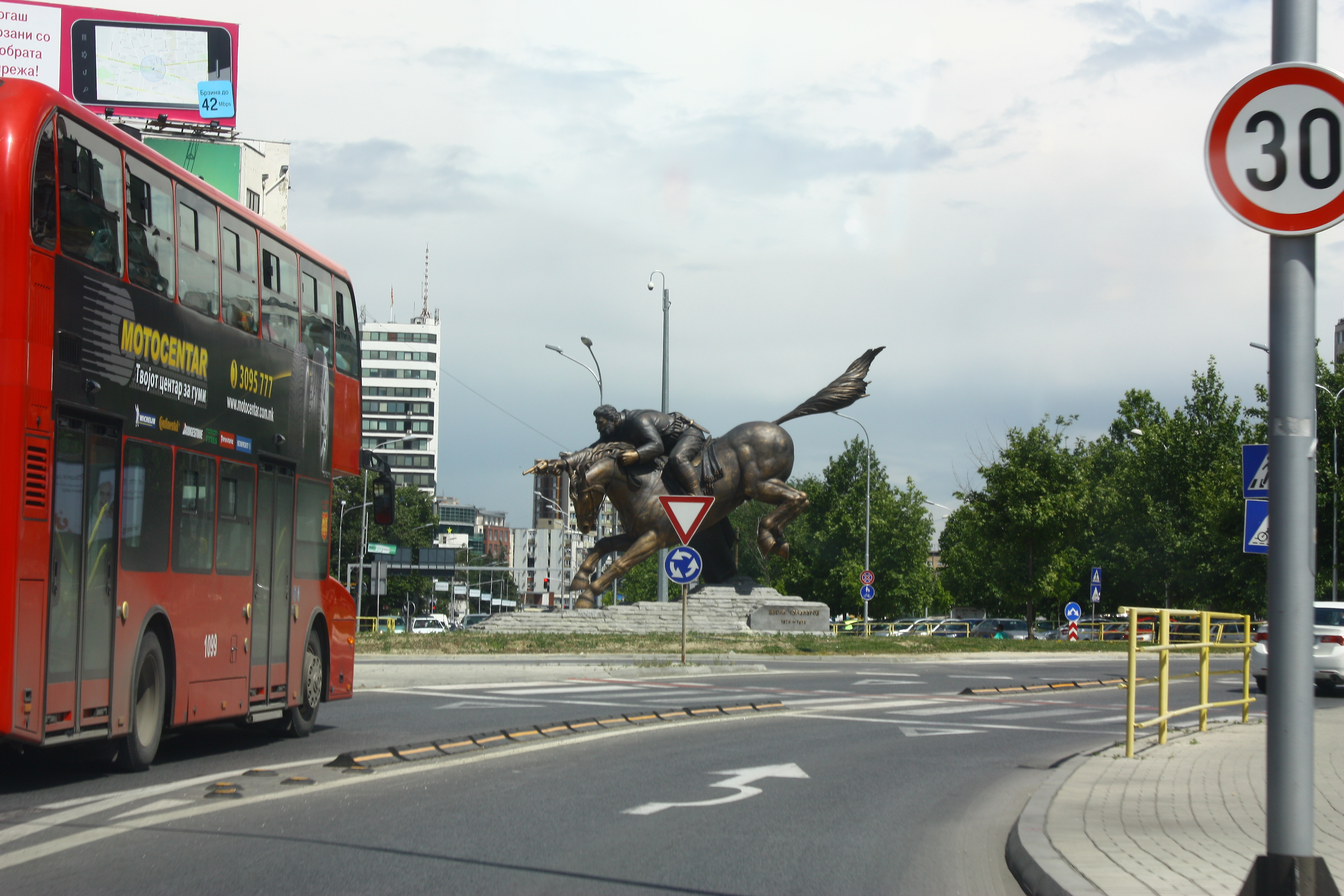 This image is uploaded as part of the picture contest Wiki Loves Cultural Heritage in Macedonia 2013. English | македонски | +/− Skopje, Macedonia